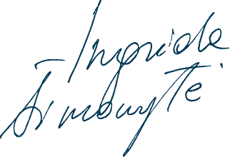 Signature of Ingrida Simonyte